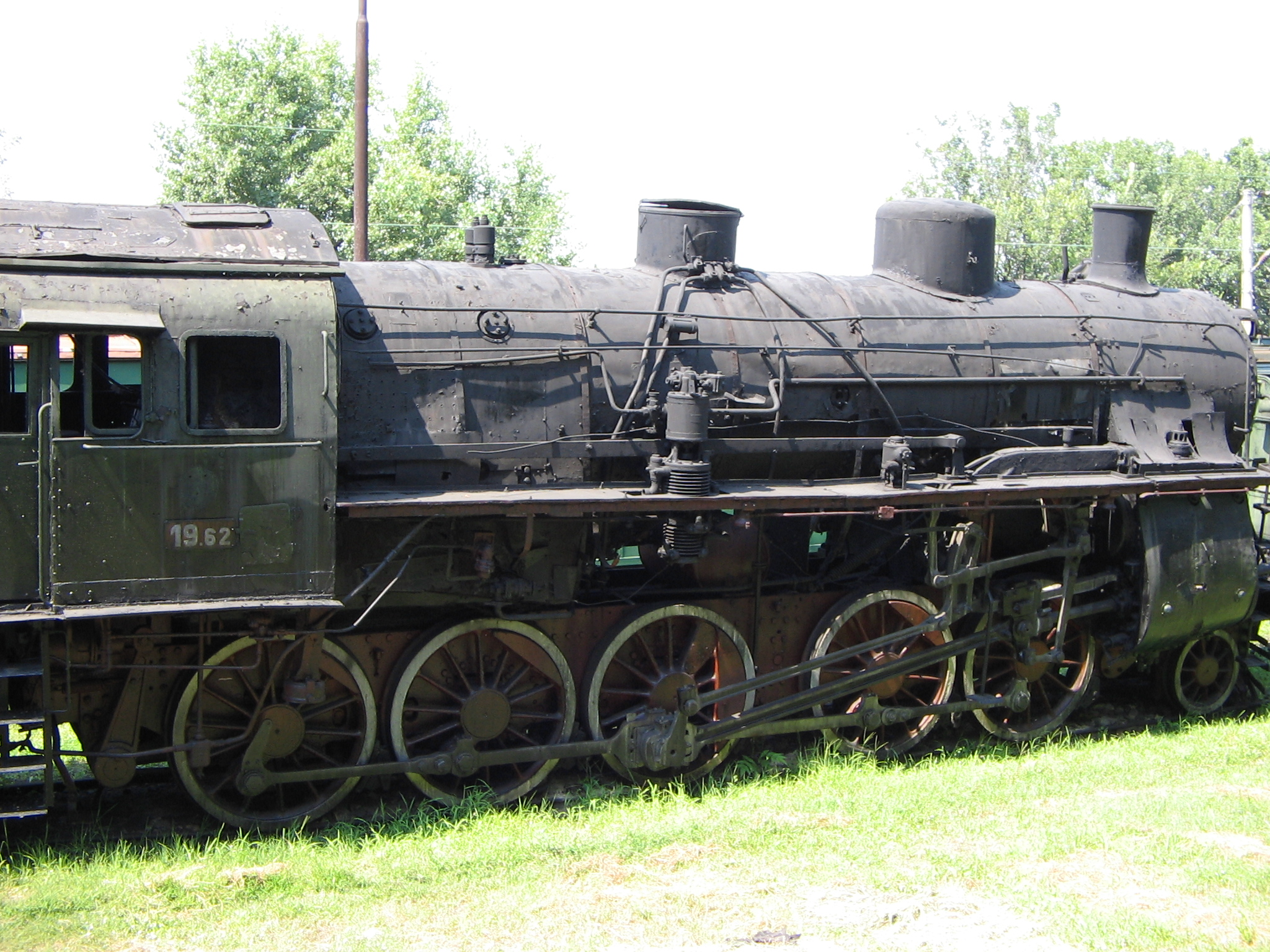 An exponent from the National Transport Museum in Rousse, Bulgaria. An engine.